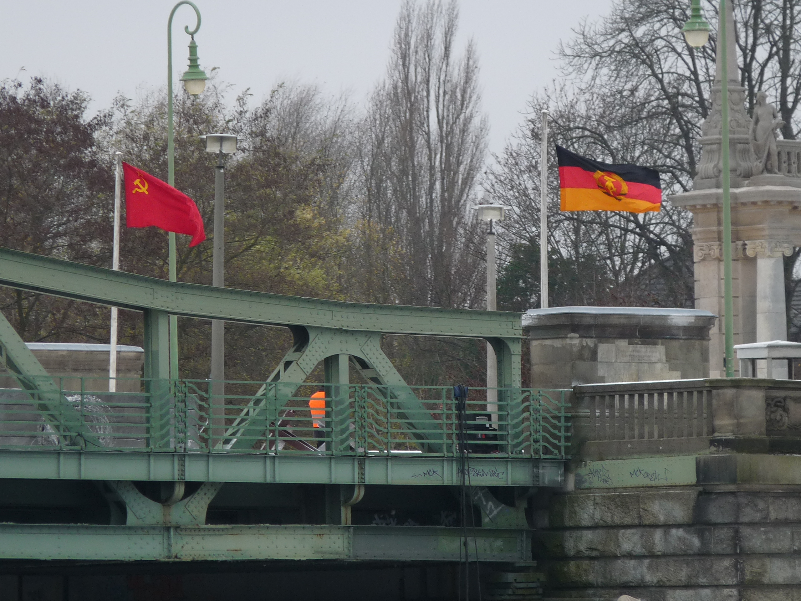 On weekend of november, 28th, until december, 1st, 2014, the Glienicke Bridge between Potsdam and Berlin was closed for any public traffic and was remade according to historical state and situation on february, 10th, 1962, in order to take movie shots for the film now known as Bridge of Spies.